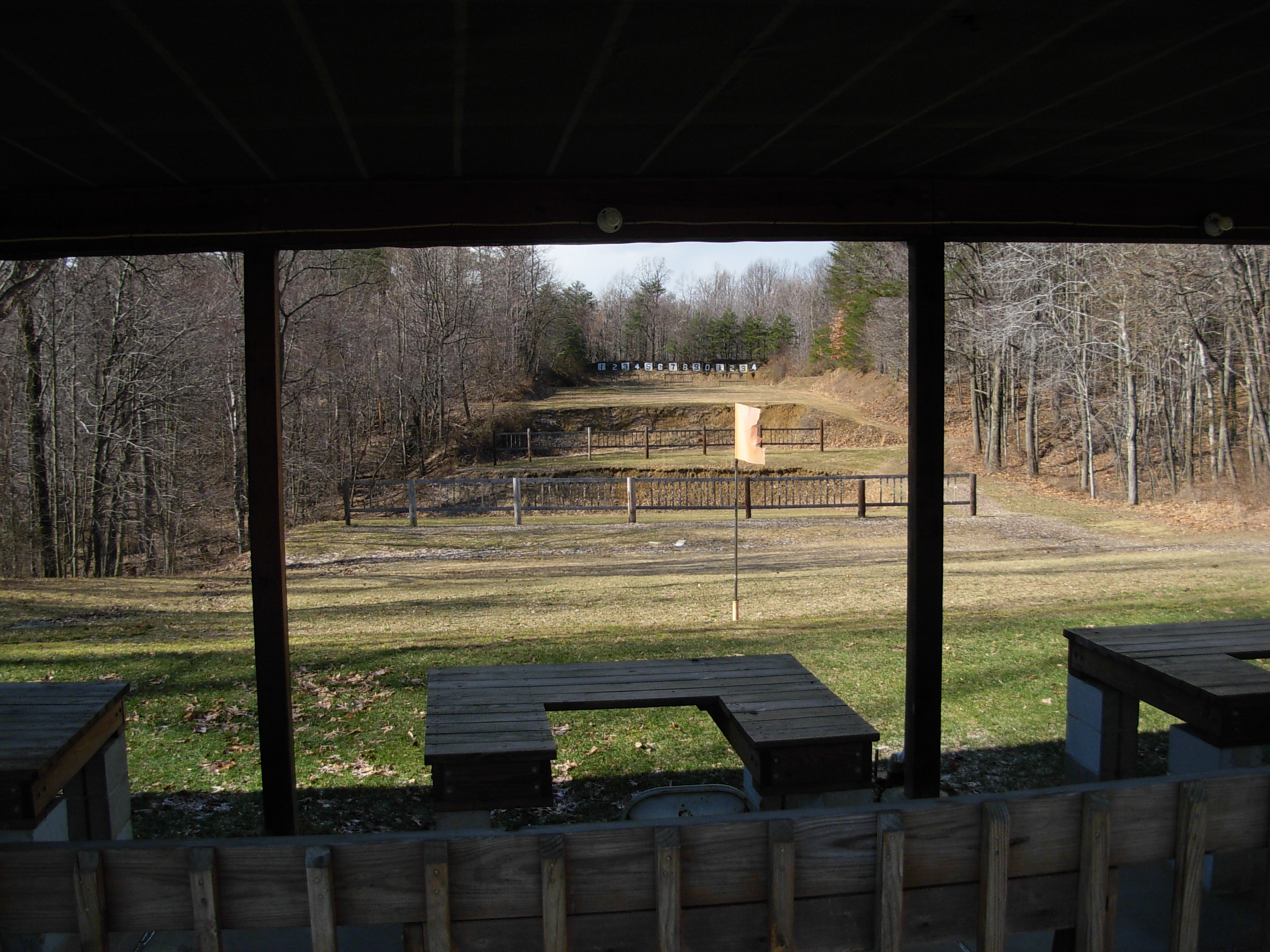 Shooting range near Pittsburgh, PA.